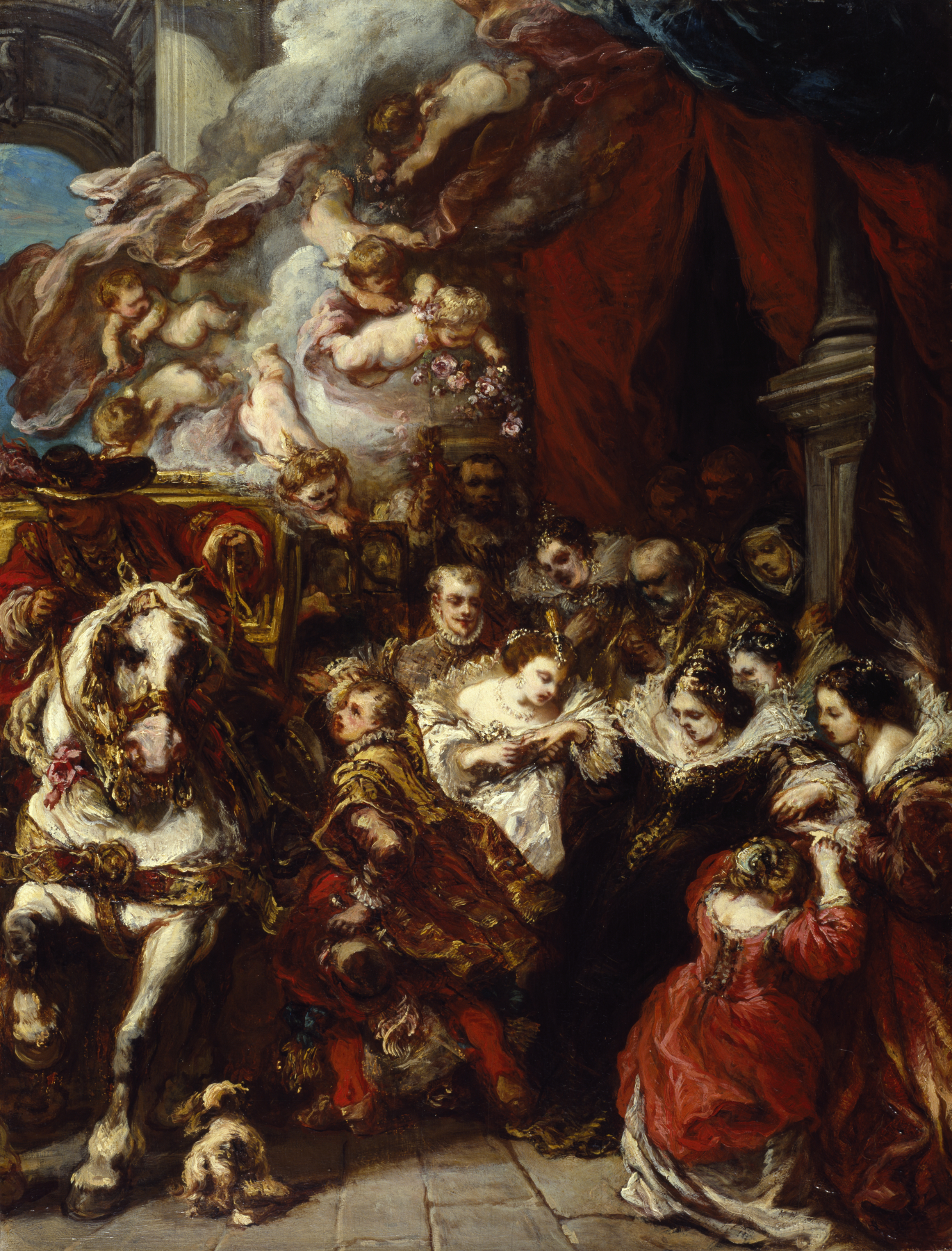 During his youth, this early Romantic artist joined Eugène Delacroix and Richard Parkes Bonington (1802-28) in painting marine scenes on both sides of the English Channel. Later, Isabey turned to historical genre subjects of the type depicted in this painting. The picture shows a scene from the life of Elisabeth of Valois (1545-68), the daughter of King Henry II of France and Catherine de' Medici. Elisabeth was briefly betrothed to Don Carlos, prince of Asturias, but for reasons of state was compelled to marry the prince's father, King Philip II of Spain. Isabey depicts the unhappy princess, dressed more like a widow than a bride, swooning as she is led to the carriage that will bear her away from France.